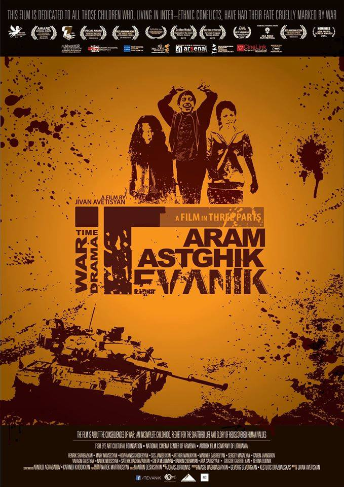 The poster of one of the films of director Jivan Avetisyan. The film's name is Tevanik.For the Tevanik's russian page.